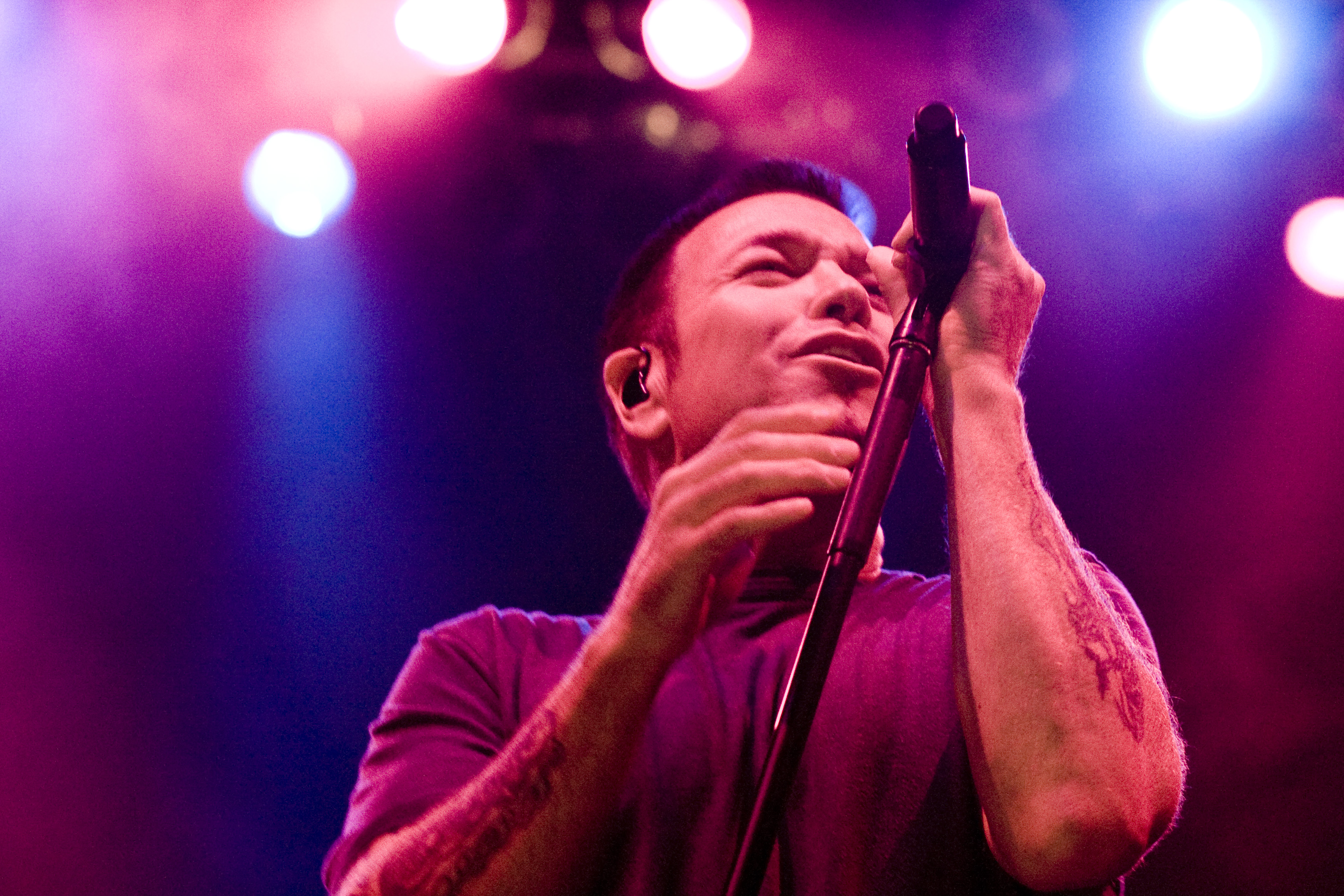 Steve Harwell, Smash Mouth vocalist, performs in the Centrum Arena at Southern Utah University.